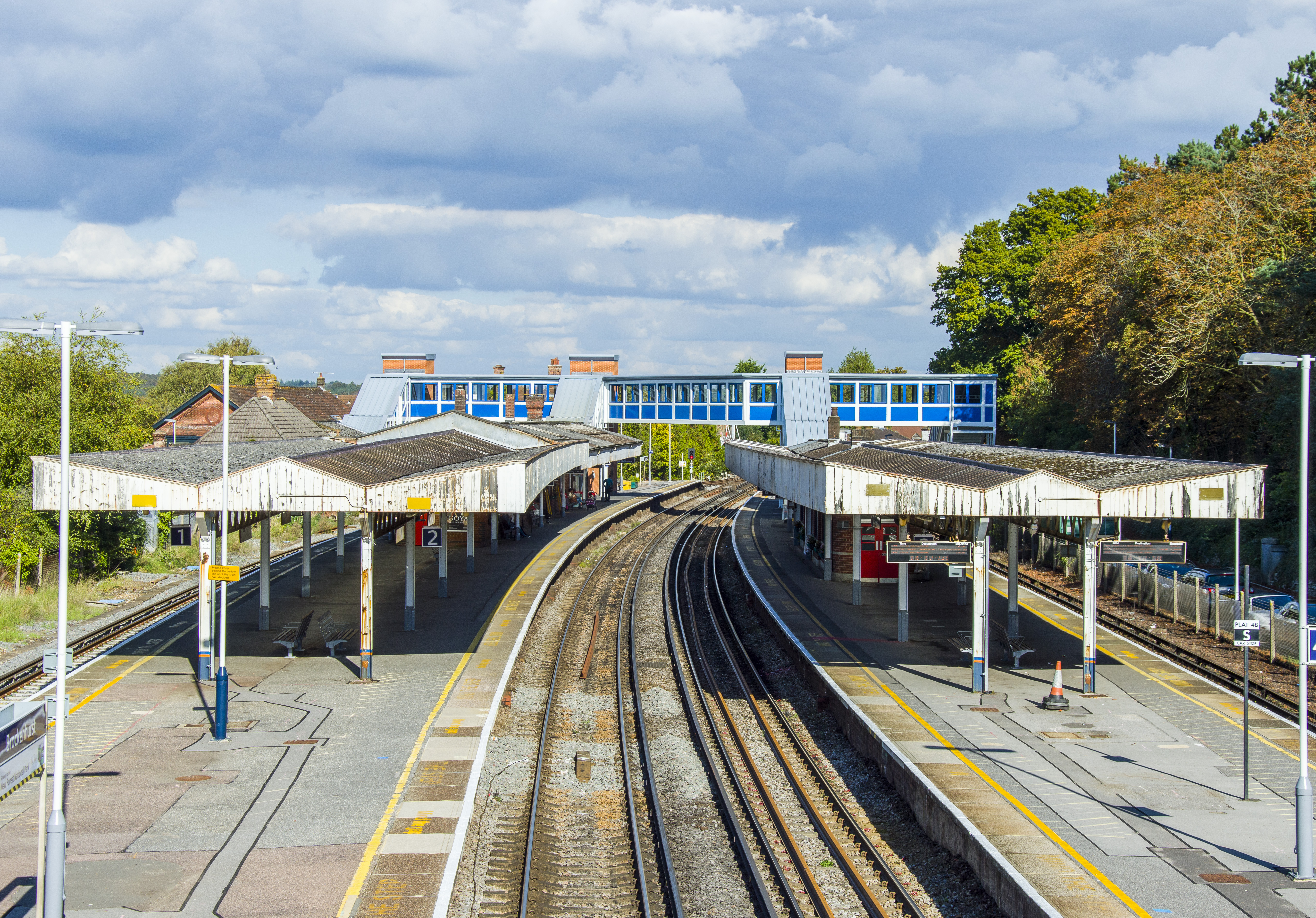 Brockenhurst station, seen from the bridge running across the platform ends. Access to this bridge is from East Bank Road.